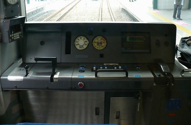 Driver's cabin of Seibu Railway 20000 Series EMU